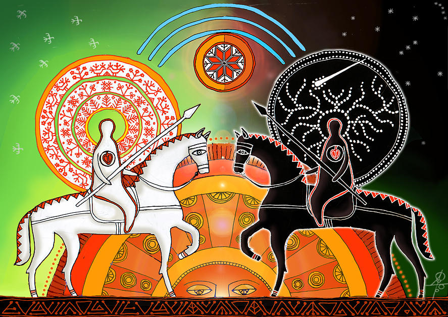 The artwork represents the supreme, dynamic polarity of the supreme God/Rod. The polarity is represented here as a struggle between Belobog ("White God") as the day god, and Chernobog ("Black God") as the night god. For further information about Slavic theo-cosmology, see the caption of Sukharev’s other artwork entitled The Seven Gods.